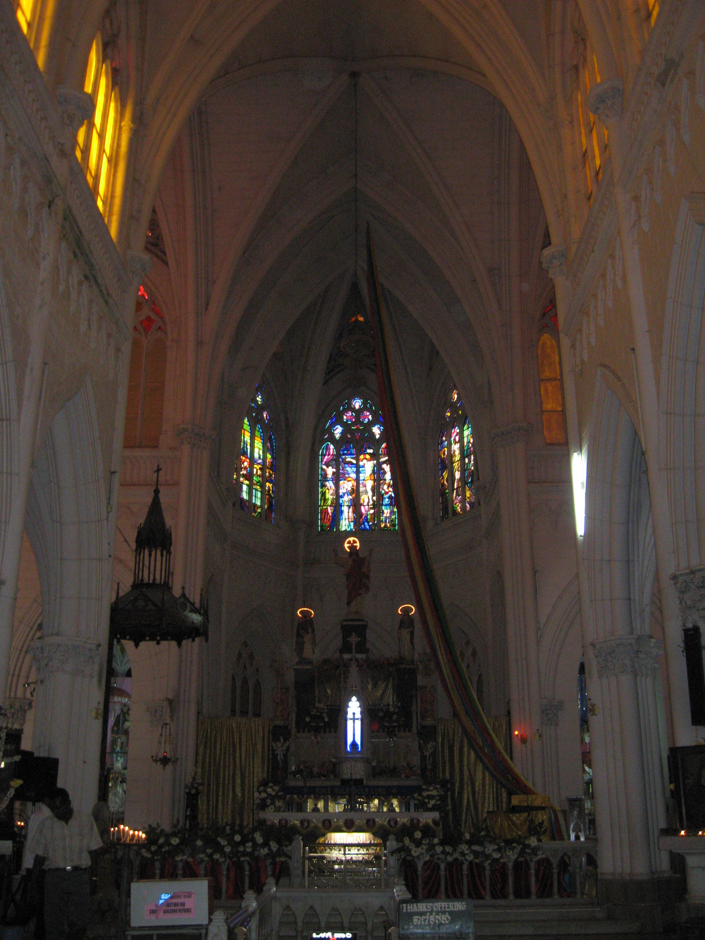 St. Philomena's church is a church built in the honour of St. Philomena in the Diocese of Mysore, India. It was constructed in 1936 using a Neo Gothic style and its architecture was inspired by the Cologne Cathedral in Germany.A church at the same location was built in 1843 by the then Maharaja Mummadi Krishnaraja Wodeyar.